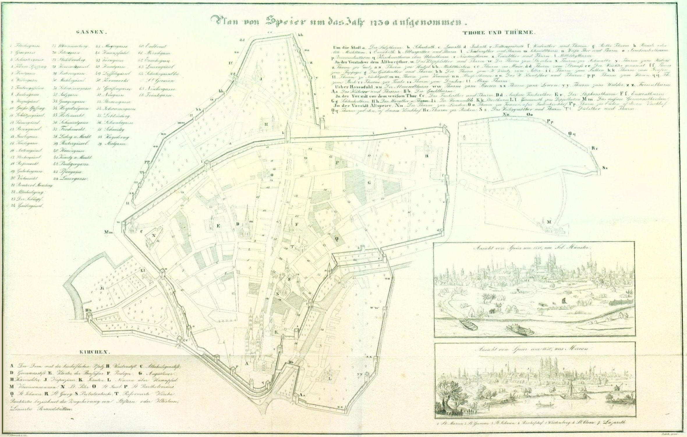 Map of Speyer co. 1730